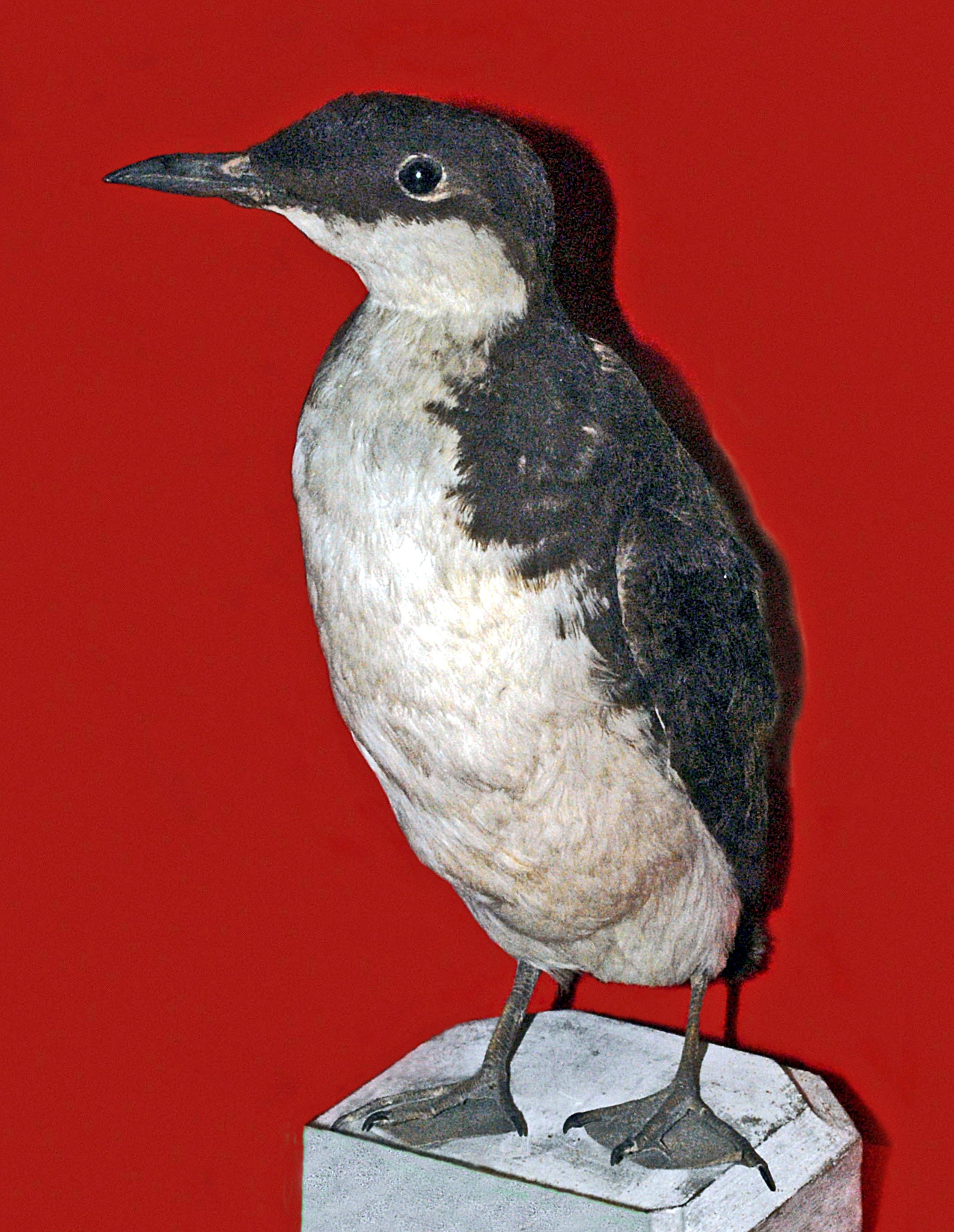 Synthliboramphus craveri, on display at the Museo Civico di Storia Naturale Federico ed Ettore Craveri in Bra, Cuneo, Italy